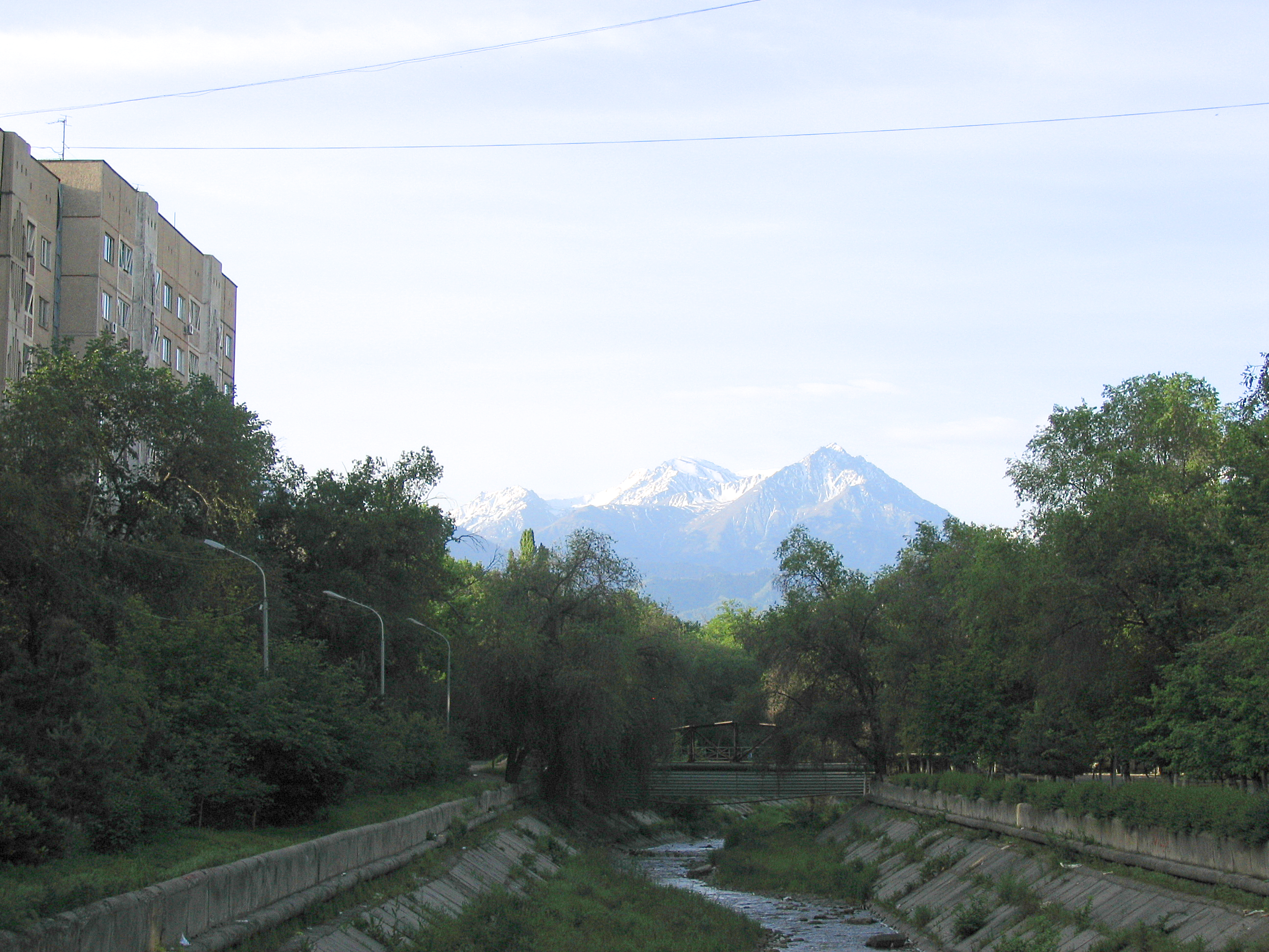 Esentai River in Almaty, Kazakhstan in 2007. This picture was taken by my dad, I edited the picture to make it look in brighter contrast because the original photo is very dark and unseen.